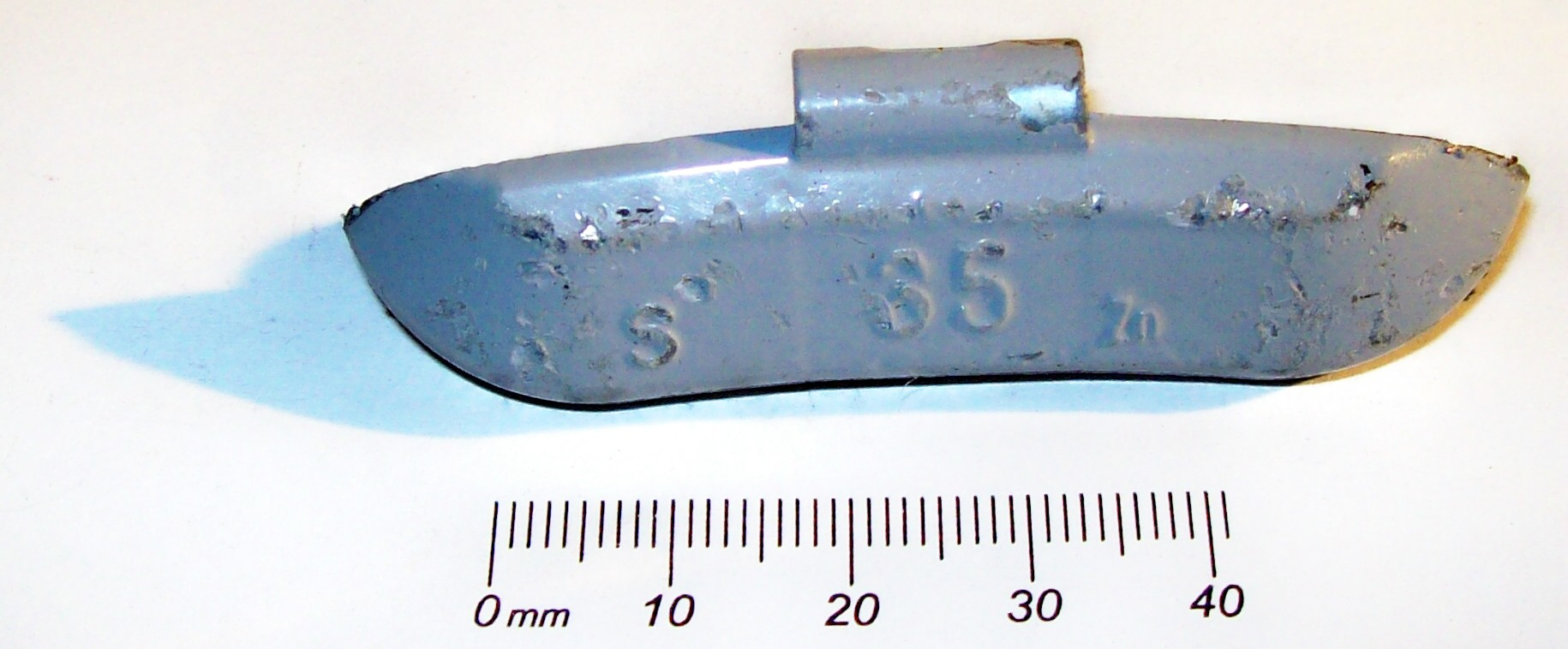 trim weight from a car rim